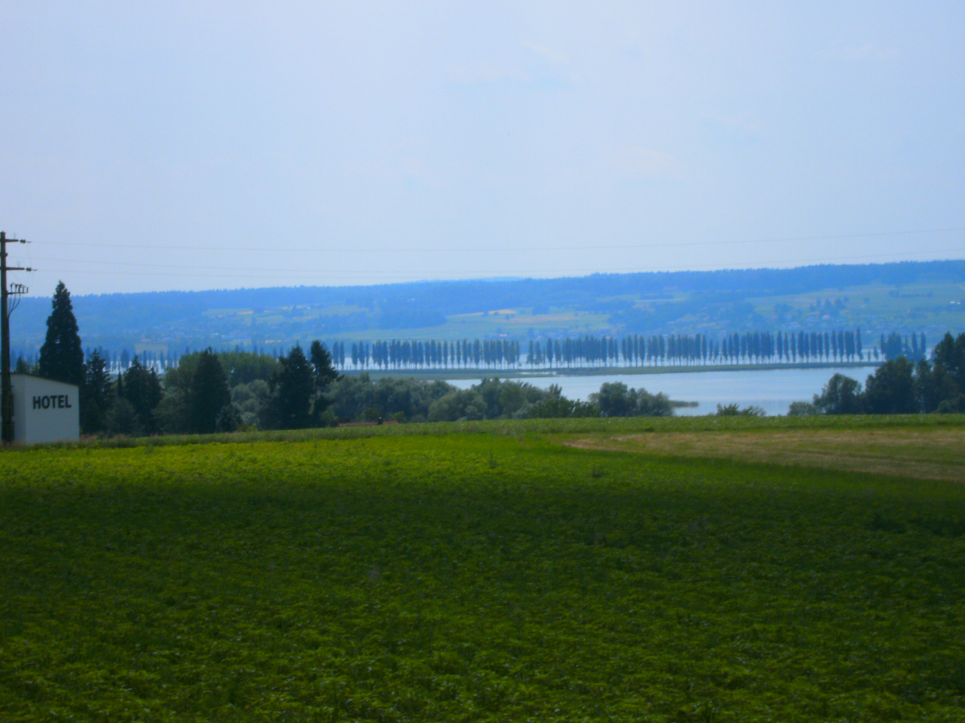 View from Bodensee-Rundweg in direction of Insel Reichenau, Germany.